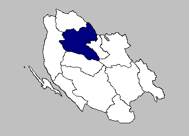 Self-made map of the Otočac municipality within the Lika-Senj County.